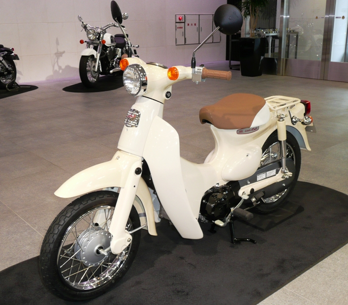 Honda Little Cub.